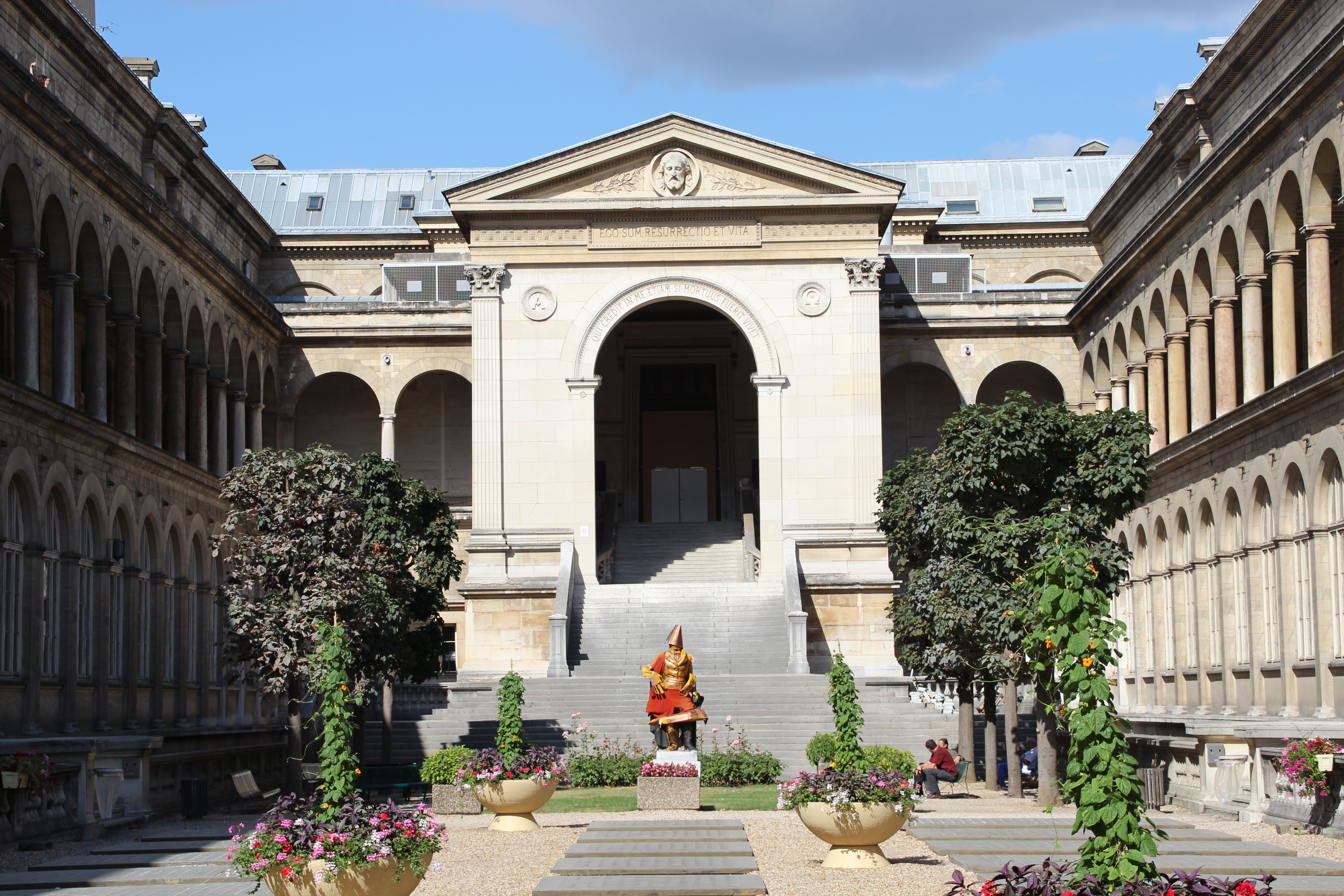 Hôtel-Dieu hospital in Paris, France.